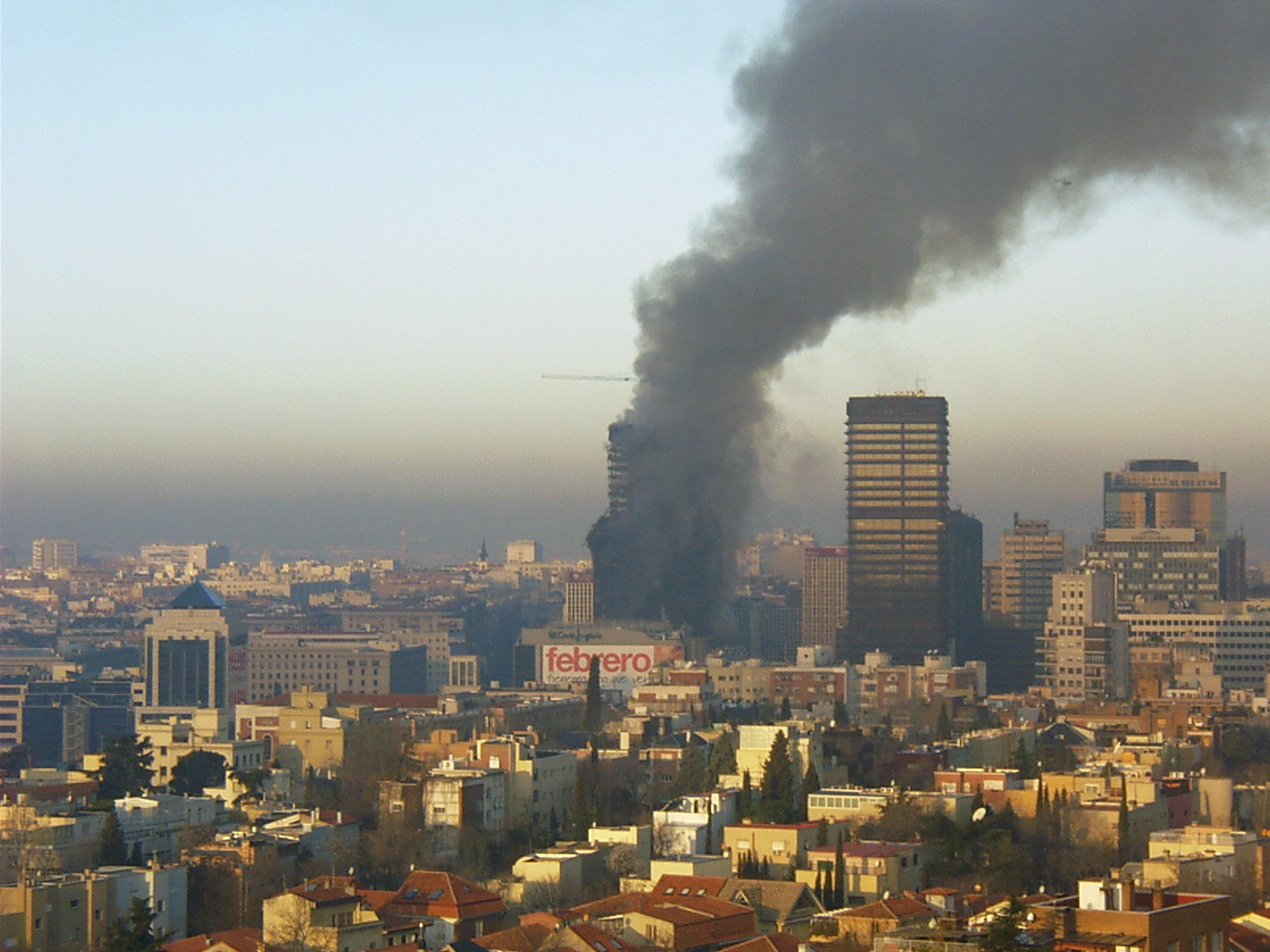 Windsor tower burning in the morning. Madrid, Spain